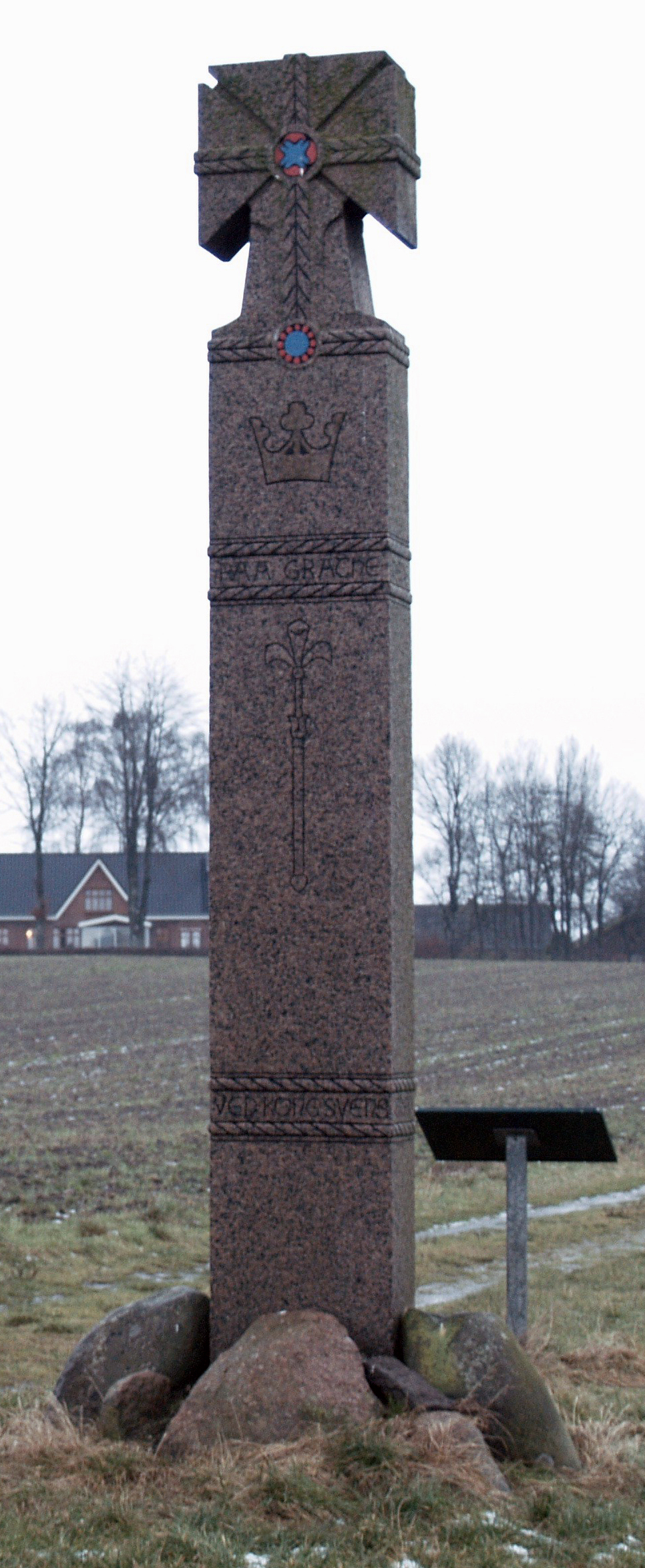 Grathe-stenen, monument for slaget ved Grathe Hede